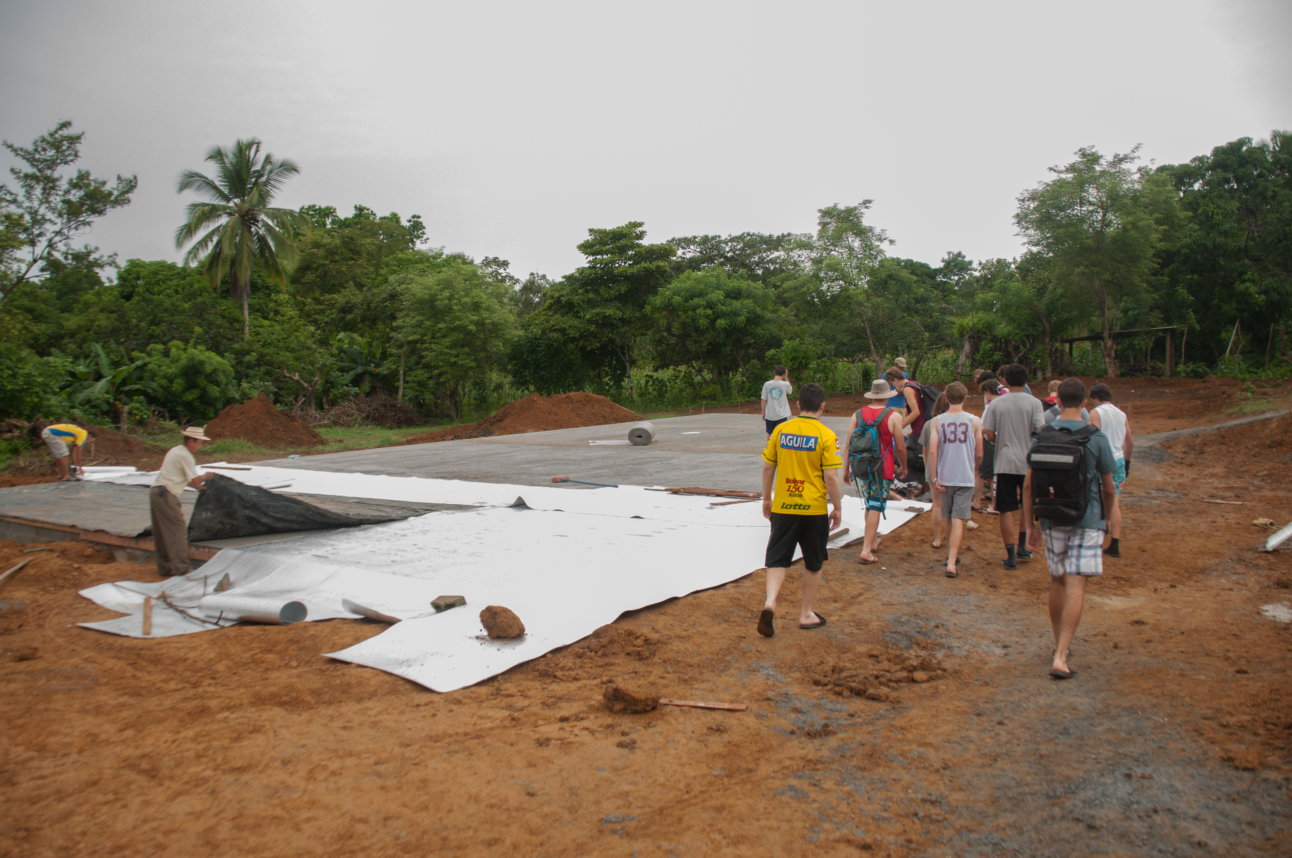 Photo of construction of new sport court June 2017